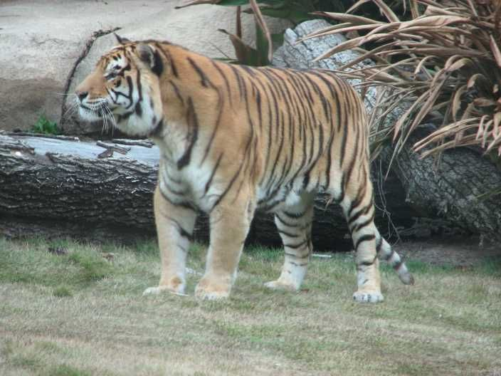 Mike the Tiger, Dec. 2006